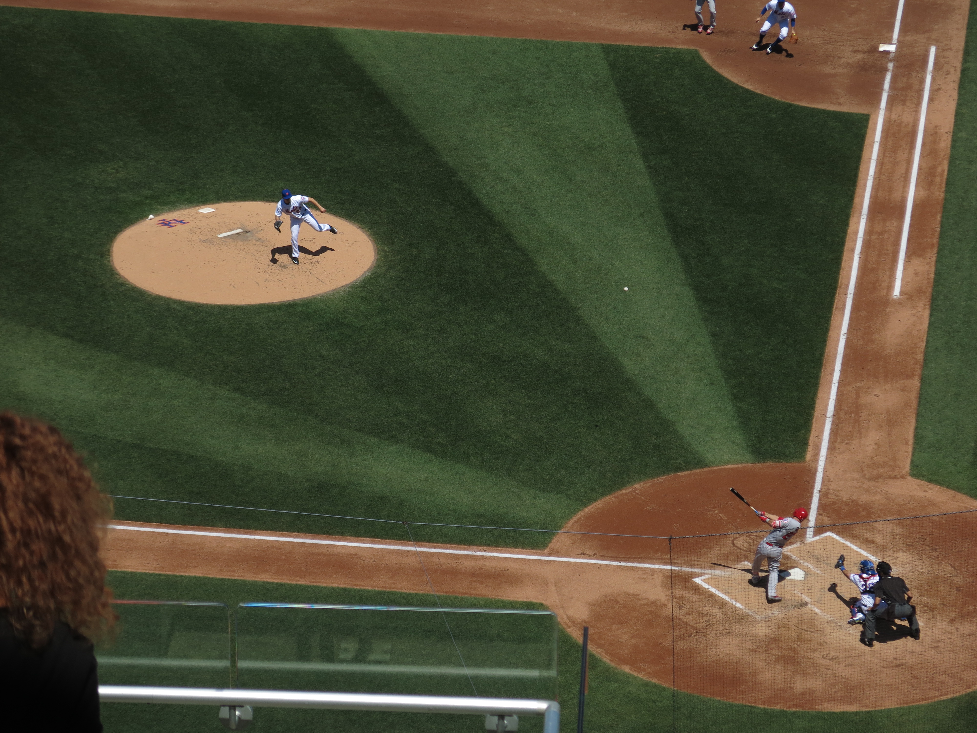 Tommy Milone gives up a home run to Mike Trout on May 21, 2017.